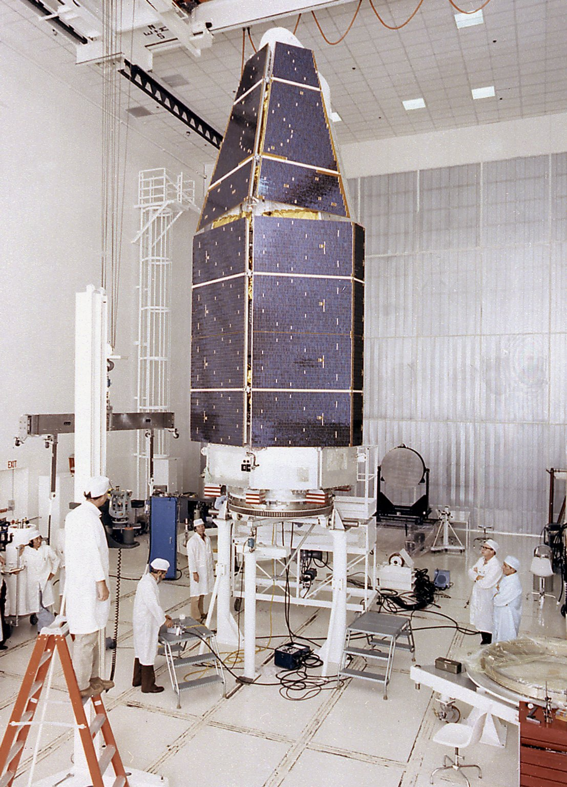 This photograph was taken during the assembly of the High Energy Astronomy Observatory (HEAO)-2 at TRW, Inc., the prime contractor for the HEAOs. The HEAO-2, the first imaging and largest x-ray telescope built to date, was capable of producing actual photographs of x-ray objects. TRW, Inc. designed and developed the HEAO, under the project management of the Marshall Space Flight Center. The HEAO-2 was originally identified as HEAO-B but the designation was changed once the spacecraft achieved orbit.